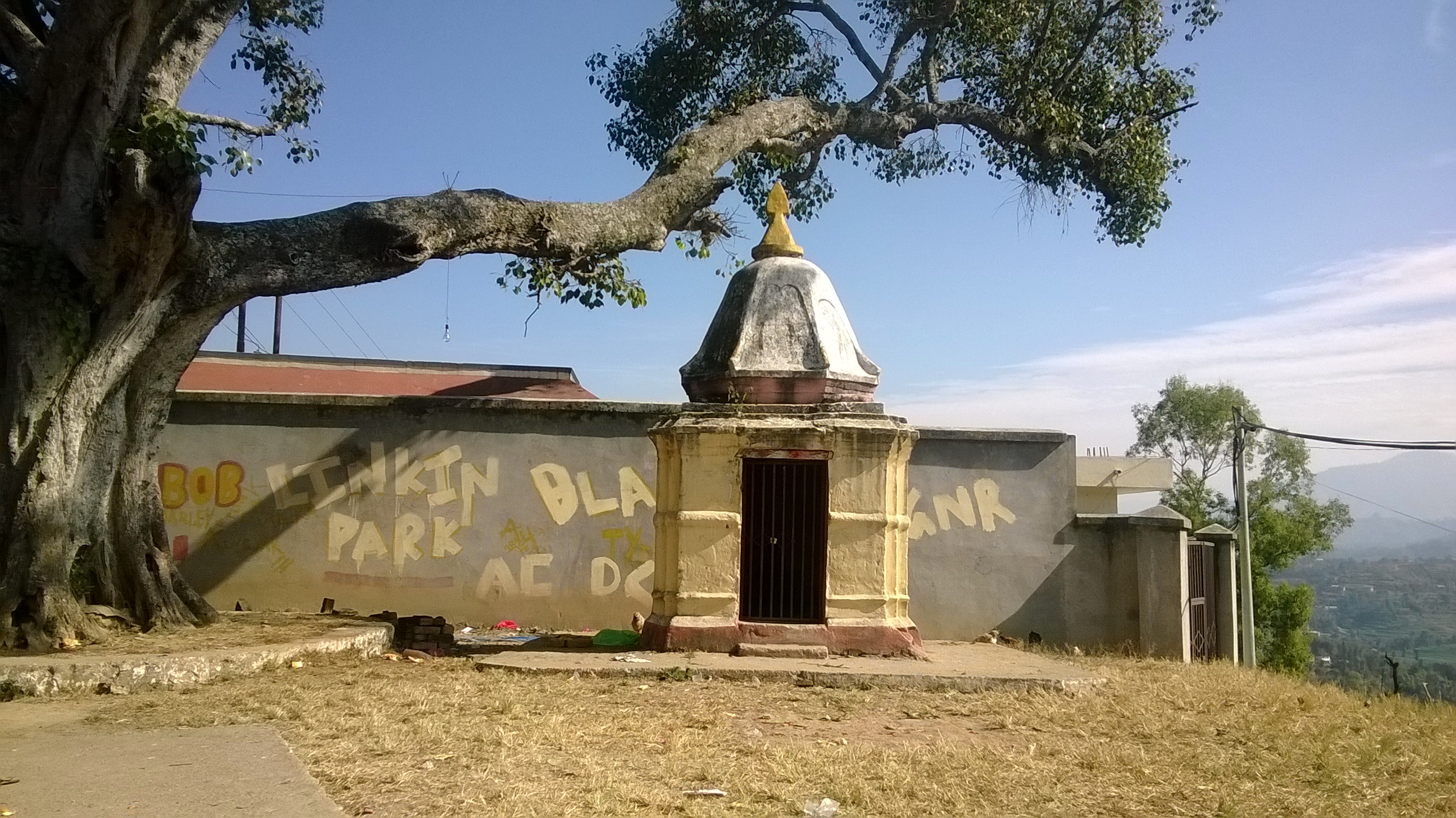 Temple of lord Krishna in Tinpiple.